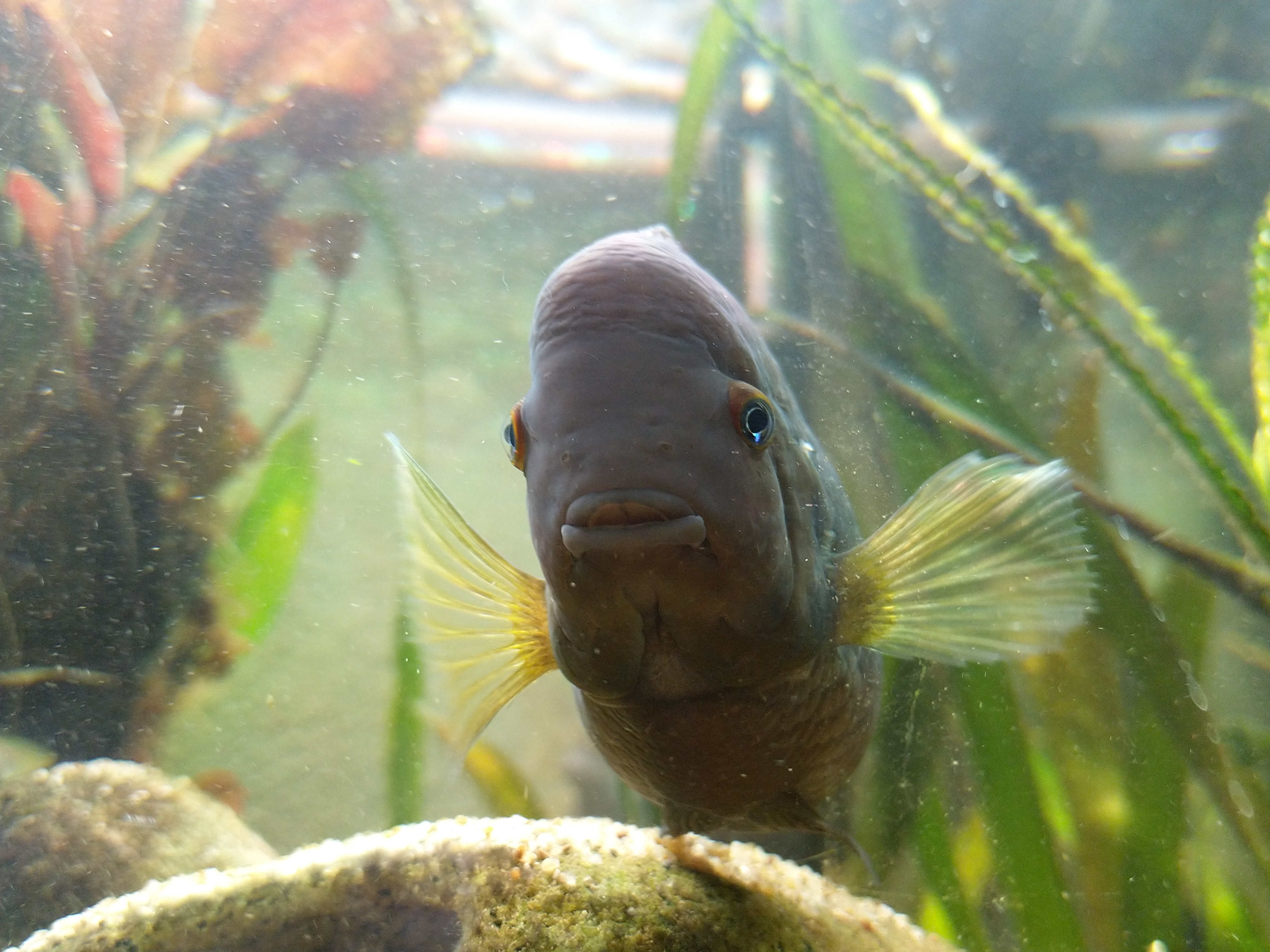 Man Cryptoheros Sajica